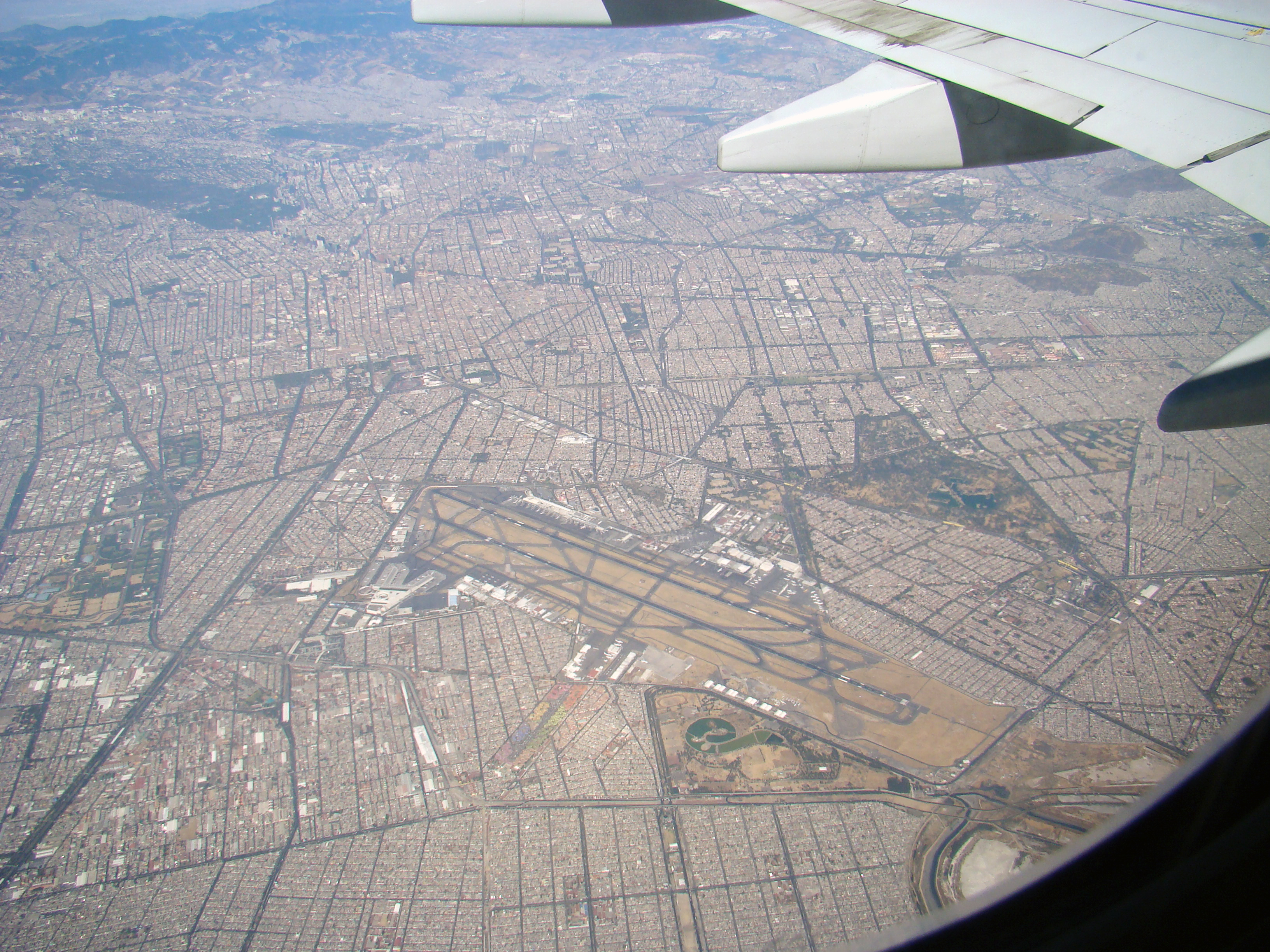 An early morning bird's eye view of Mexico City Airport (MMMX) on March 21st, 2011.